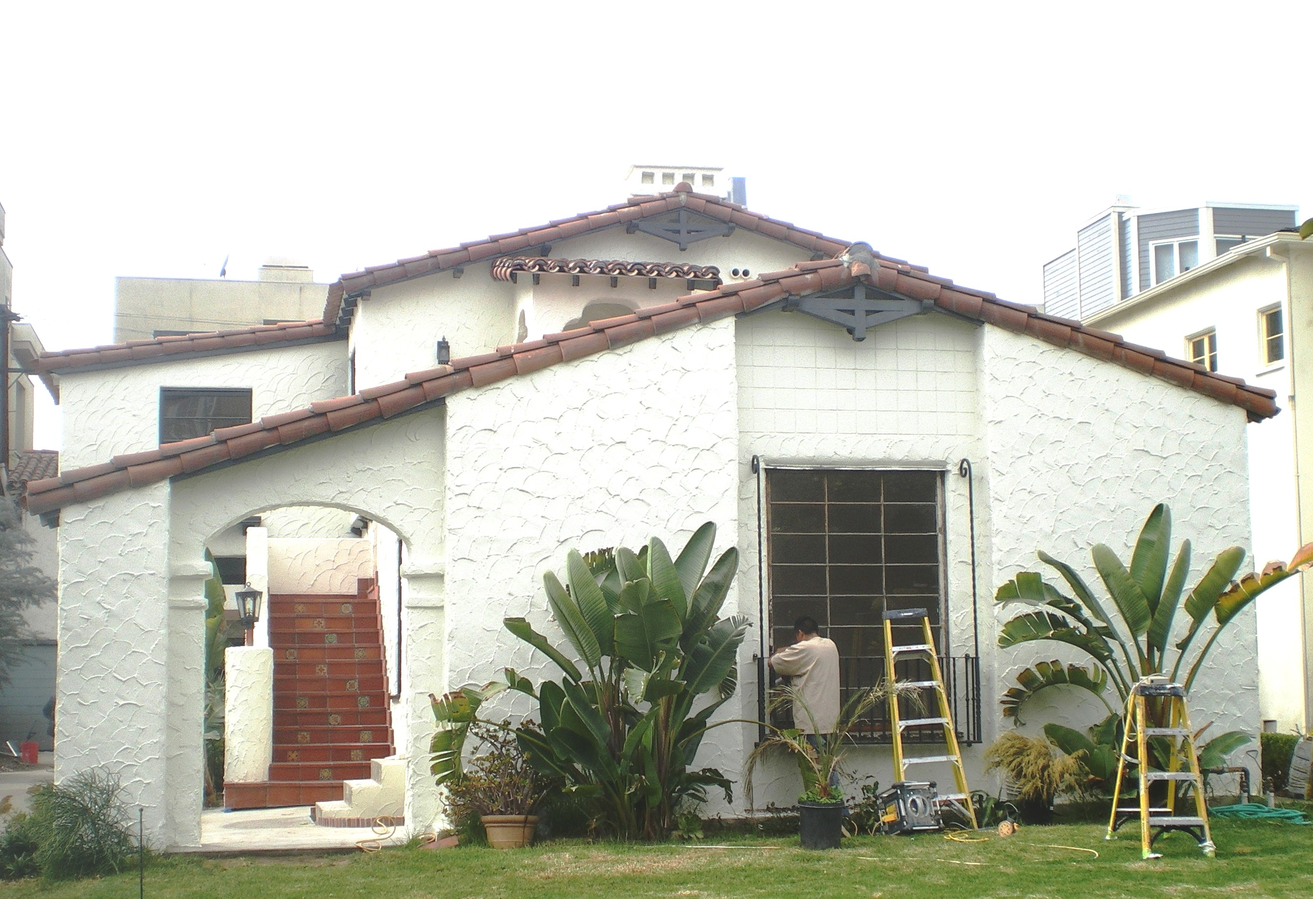 Siple House — 1841 Kelton Avenue, West Los Angeles, California. Designed by Los Angeles architect Allen Siple in the 1930s. A Los Angeles Historic-Cultural Monument.